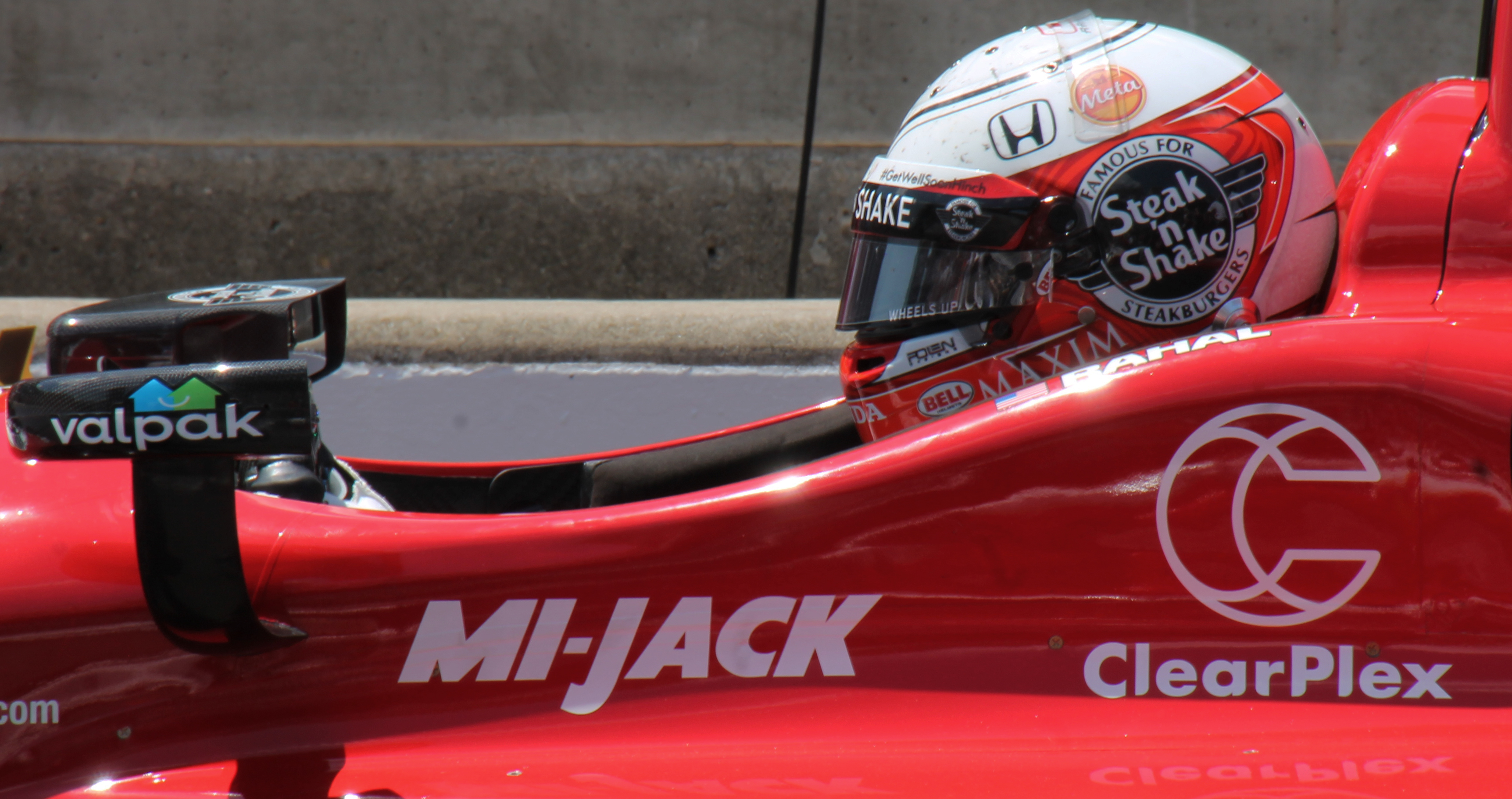 Graham Rahal participating in the Pit Stop Challenge on Carb Day 2015 at the Indianapolis Motor Speedway